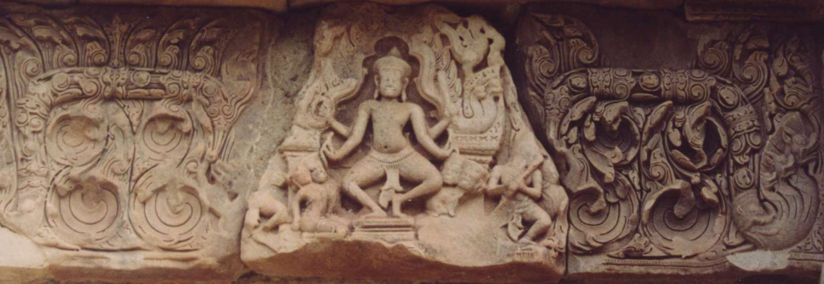 Lintel on top of the northern entry to the main shrine in the Phimai temple in Phimai historical park, Nakhon Ratchasima, Thailand. It shows a lintel over the north entrance to the shrine with a 4-armed dancing Vishnu.